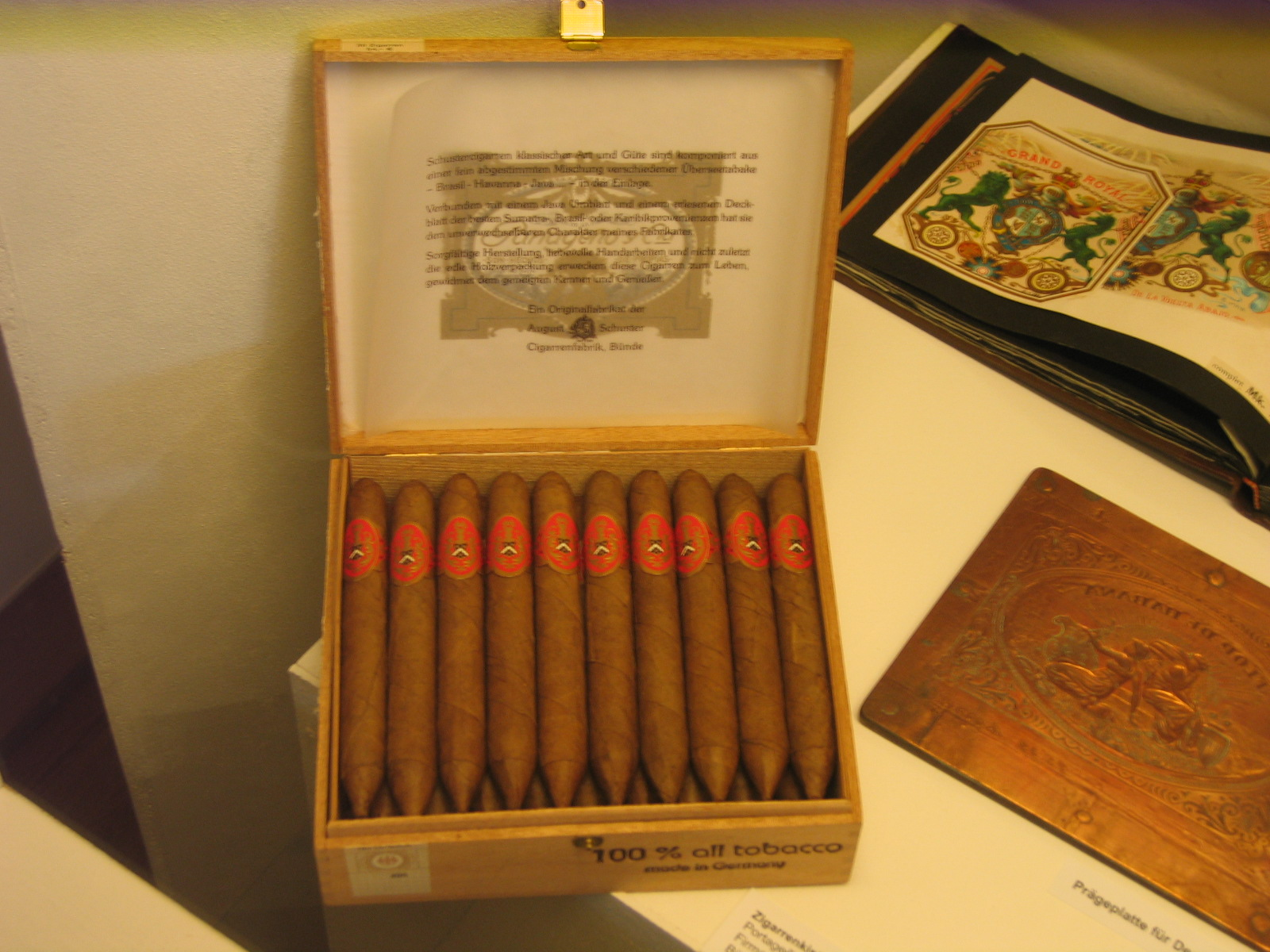 in Bünde, District of Herford, North Rhine-Westphalia, Germany.